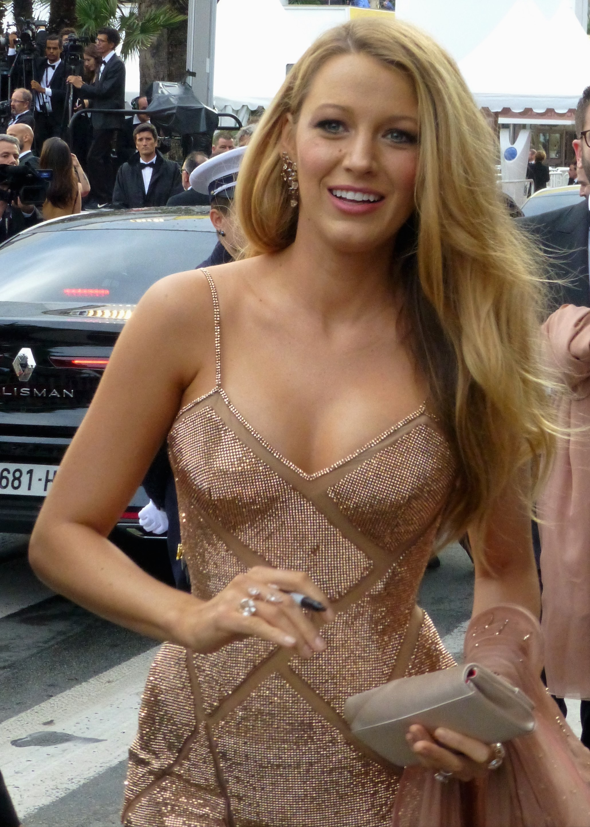 Blake Lively at the world premiere of Cafe Society, 2016 Cannes Film Festival